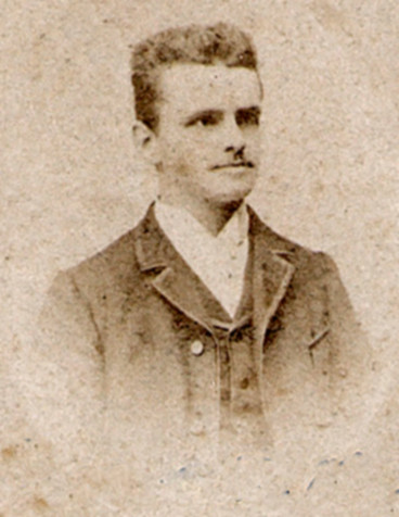 Max Mühlberg (1873-1947)